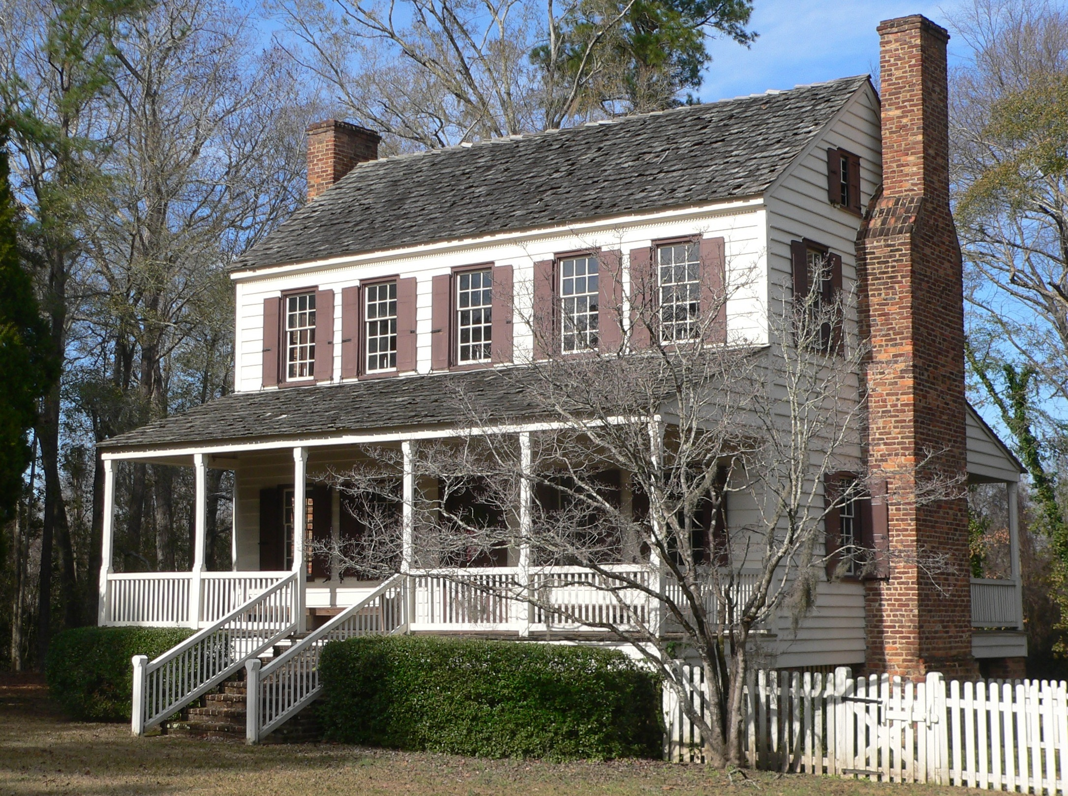 Thorntree house, located in Kingstree, South Carolina.